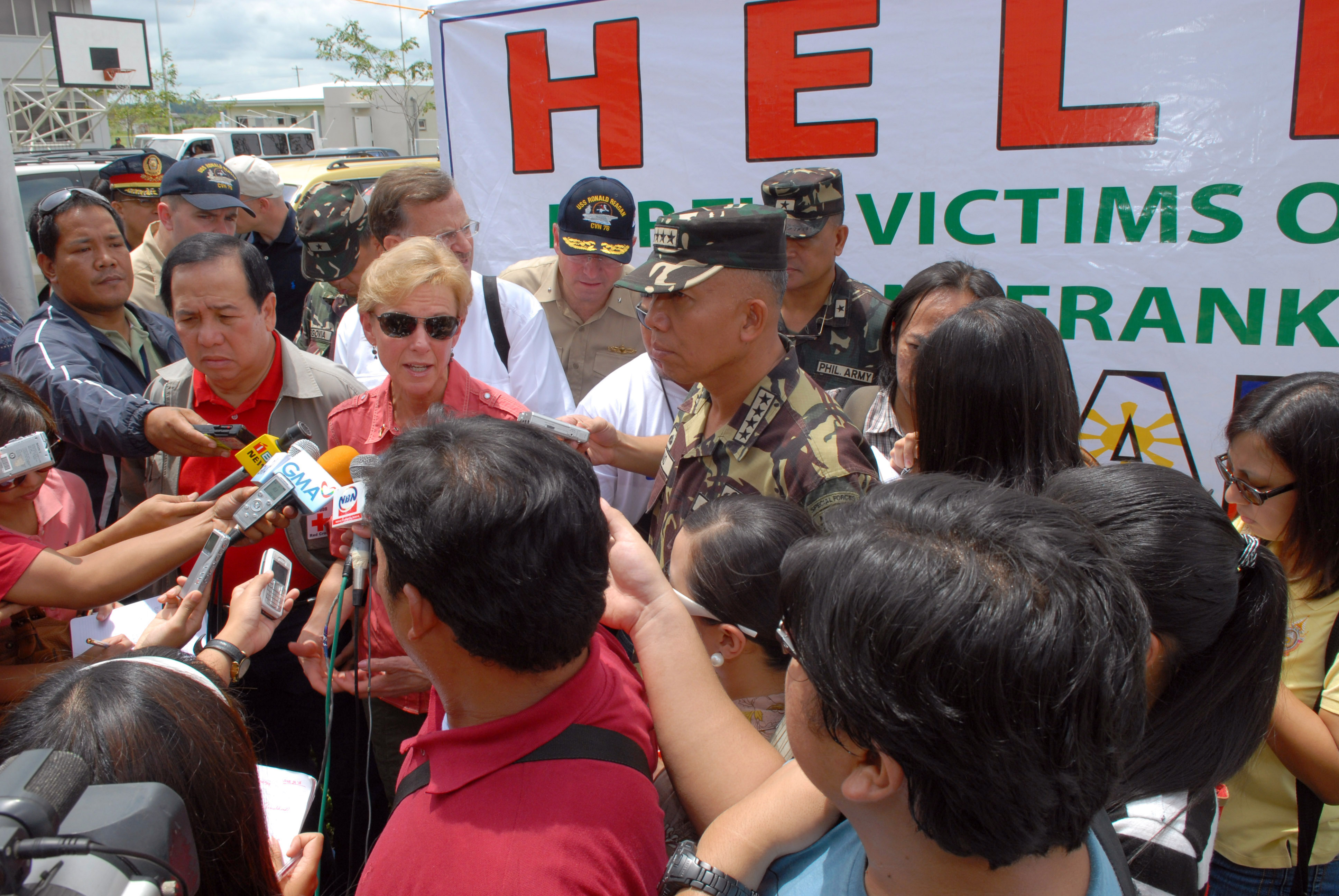 PANAY ISLAND, Philippines (June 29, 2008) U.S. Ambassador to the Philippines, Kristie A. Kenney, speaks with members from the Philippine media. Kenney, Commander Carrier Strike Group Seven, Rear Adm. James P. Wisecup, Armed Forces of the Philippines Chief of Staff, General Alexander B. Yano and Republic of Philippines Senator Dick Gordon, and other American and Philippine officials, met at Iloilo Airport to share their goals and show their support for Typhoon Fengshen relief efforts. At the request of the government of the Republic of the Philippines, Reagan is off the coast of Panay Island providing humanitarian assistance and disaster response. Reagan and other U.S. Navy ships are operating in the 7th Fleet area of responsibility to promote peace, cooperation and stability. U.S. Navy photo by Mass Communication Specialist 2nd Class Jennifer S. Kimball (Released)